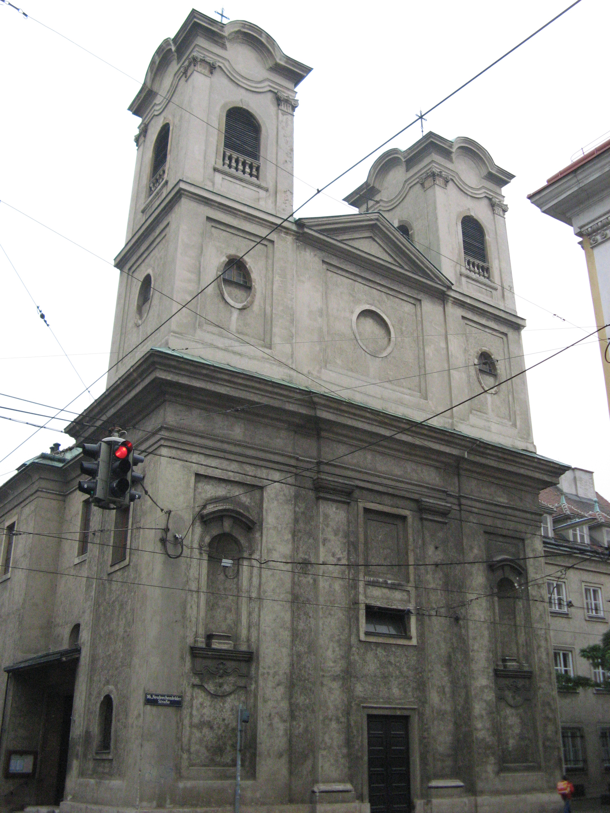 Church Neulerchenfelder Pfarrkirche at 16th district of Vienna, Ottakring